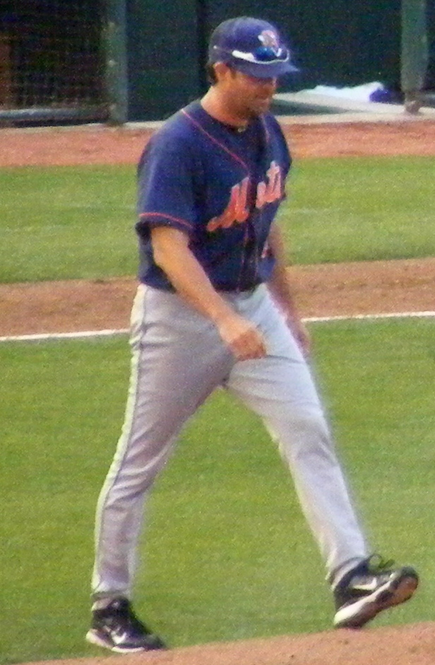 Binghamton Mets pitching coach Marc Valdes makes a mound visit during a 2011 game at Arm & Hammer Park in Trenton, New Jersey. Players present include Salomon Manriquez.